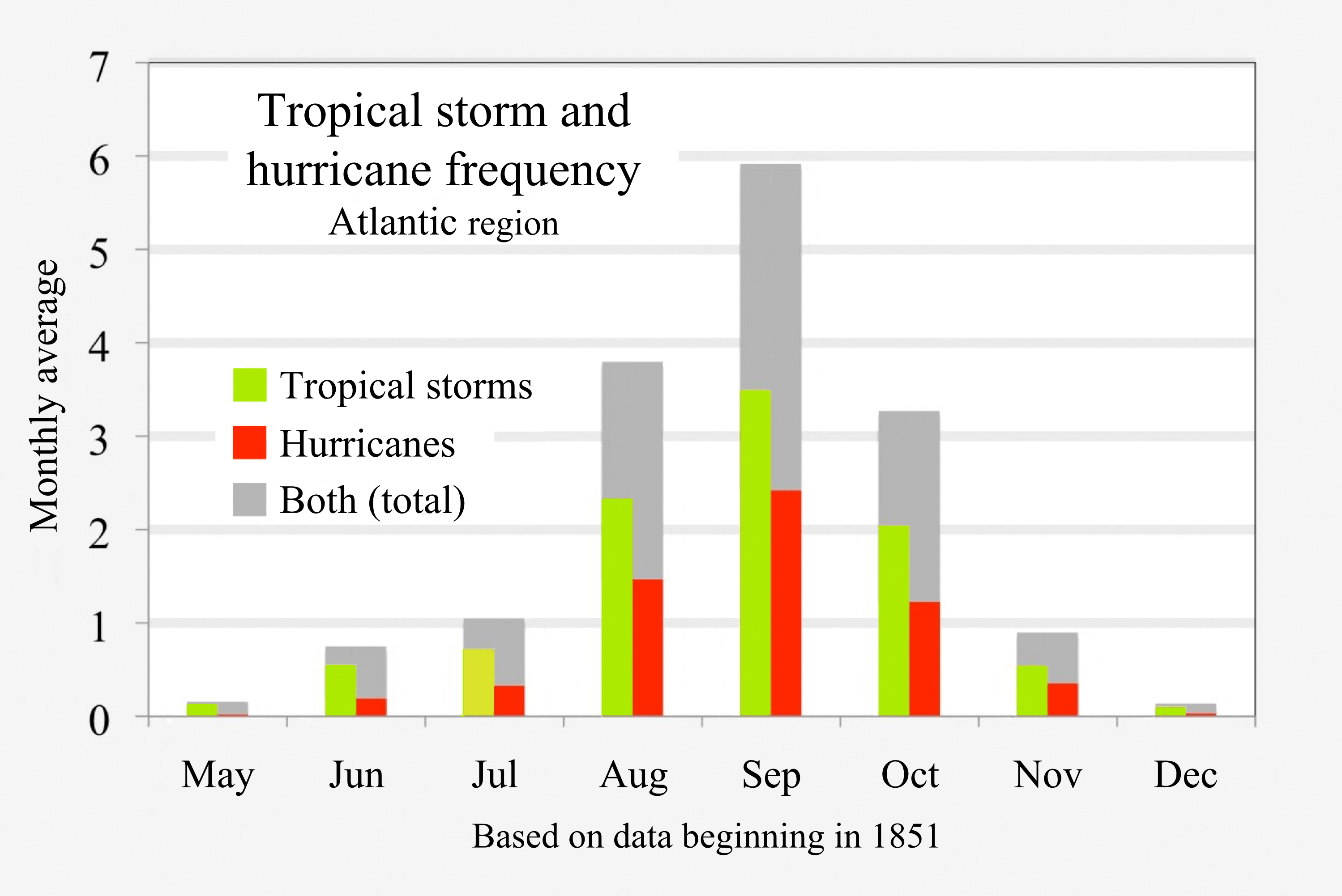 Graph of tropical storm and hurricane frequency, Atlantic region, monthly, based on data from 1851-2017. Data source: Landsea, Chris (contributor from the NHC). Total and Average Number of Tropical Cylones by Month (1851-2017). . National Oceanic and Atmospheric Administration, Atlantic Oceanographic and Meteorological Laboratory. Archived from the original on September 1, 2018. Raw data (not all columns from spreadsheet were used in uploaded graph): Month Total TS Tropical Storms Total Hurr Hurricanes U.S. Landfall Hurricanes U.S. Landfall Hurricanes Both (total) Jan 3 0.02 2 0.01 0 * 0.03 Feb 1 0.01 0 0.00 0 * 0.01 Mar 1 0.01 1 0.01 0 * 0.01 Apr 2 0.01 0 0.00 0 * 0.01 May 22 0.13 4 0.02 0 * 0.16 Jun 92 0.55 33 0.20 19 0.12 0.75 Jul 120 0.72 55 0.33 25 0.15 1.05 Aug 389 2.33 245 1.47 80 0.48 3.80 Sep 584 3.50 404 2.42 111 0.67 5.92 Oct 341 2.04 205 1.23 54 0.33 3.27 Nov 91 0.54 59 0.35 5 0.03 0.90 Dec 17 0.10 6 0.04 0 * 0.14